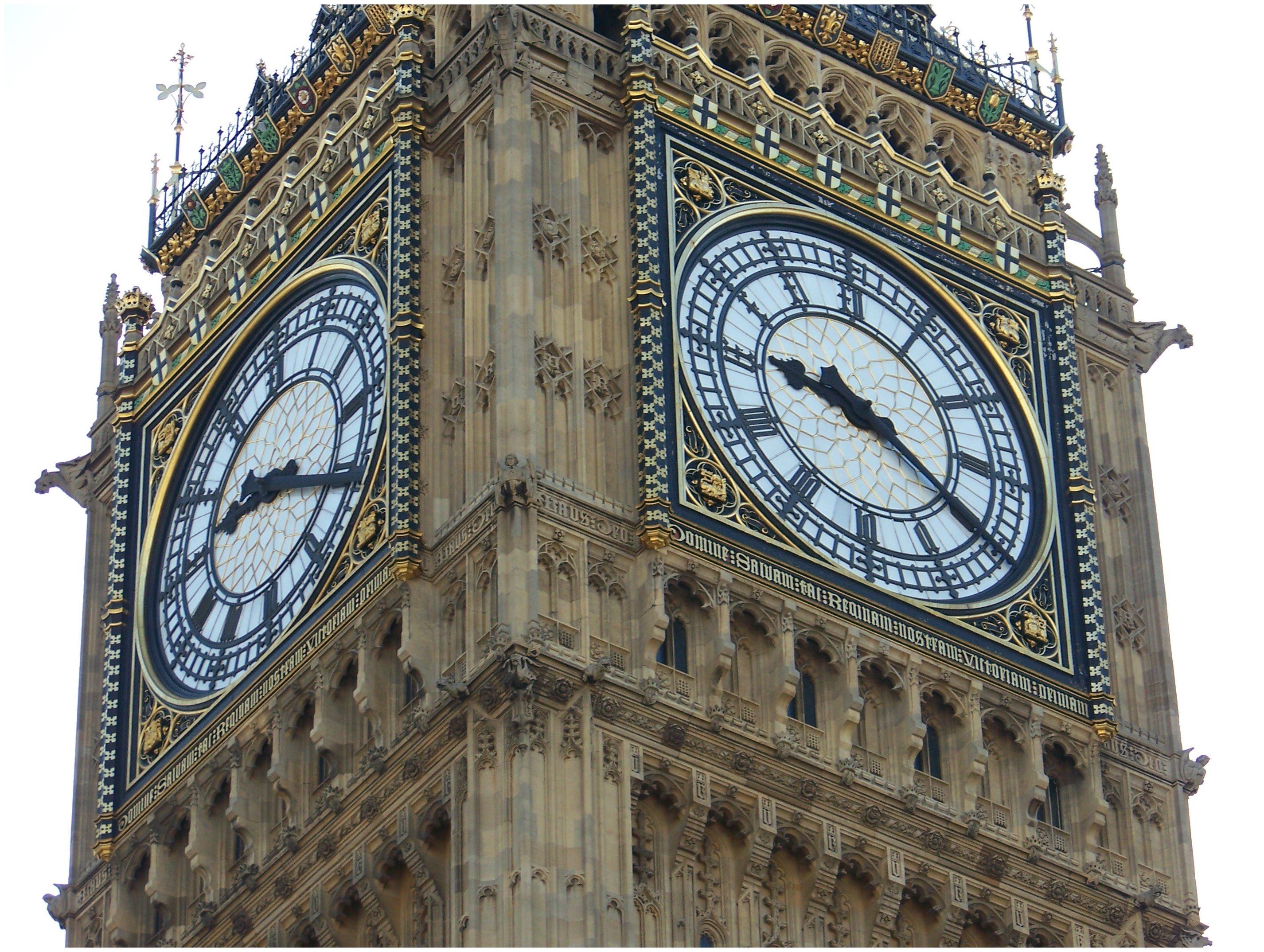 The Clock Tower, Palace of Westminster, London, UK